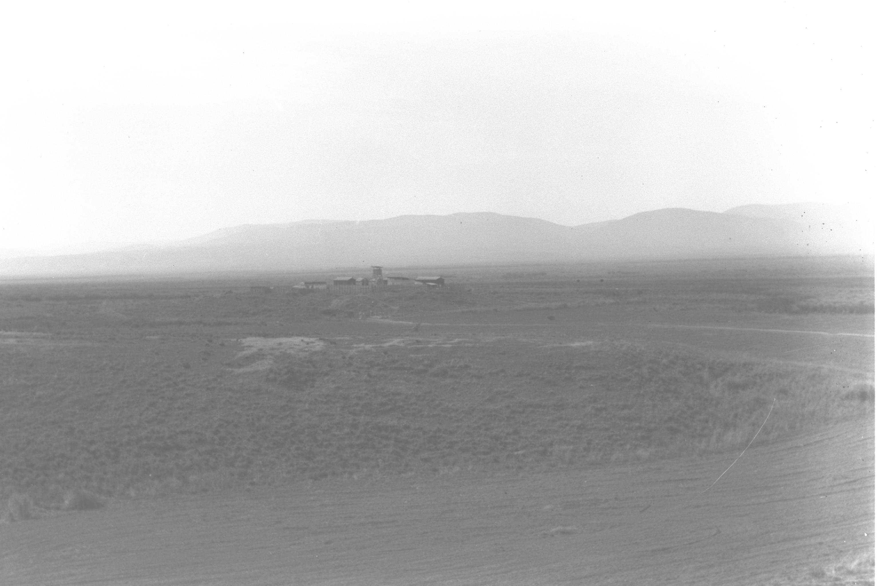 A VIEW OF KIBBUTZ KFAR RUPPIN IN THE BEIT SHEAN VALLEY. מראה כללי של קיבוץ כפר רופין בעמק בית שאן.